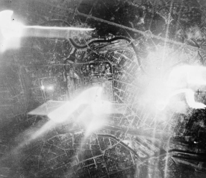 Aiming point picture taken by the night camera of a Mosquito bomber on a raid to Berlin